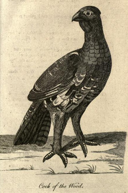 "Cock of the Wood" (Capercaillie). From A Tour in Scotland MDCCLXIX by Thomas Pennant, printed by John Monk, 1771.